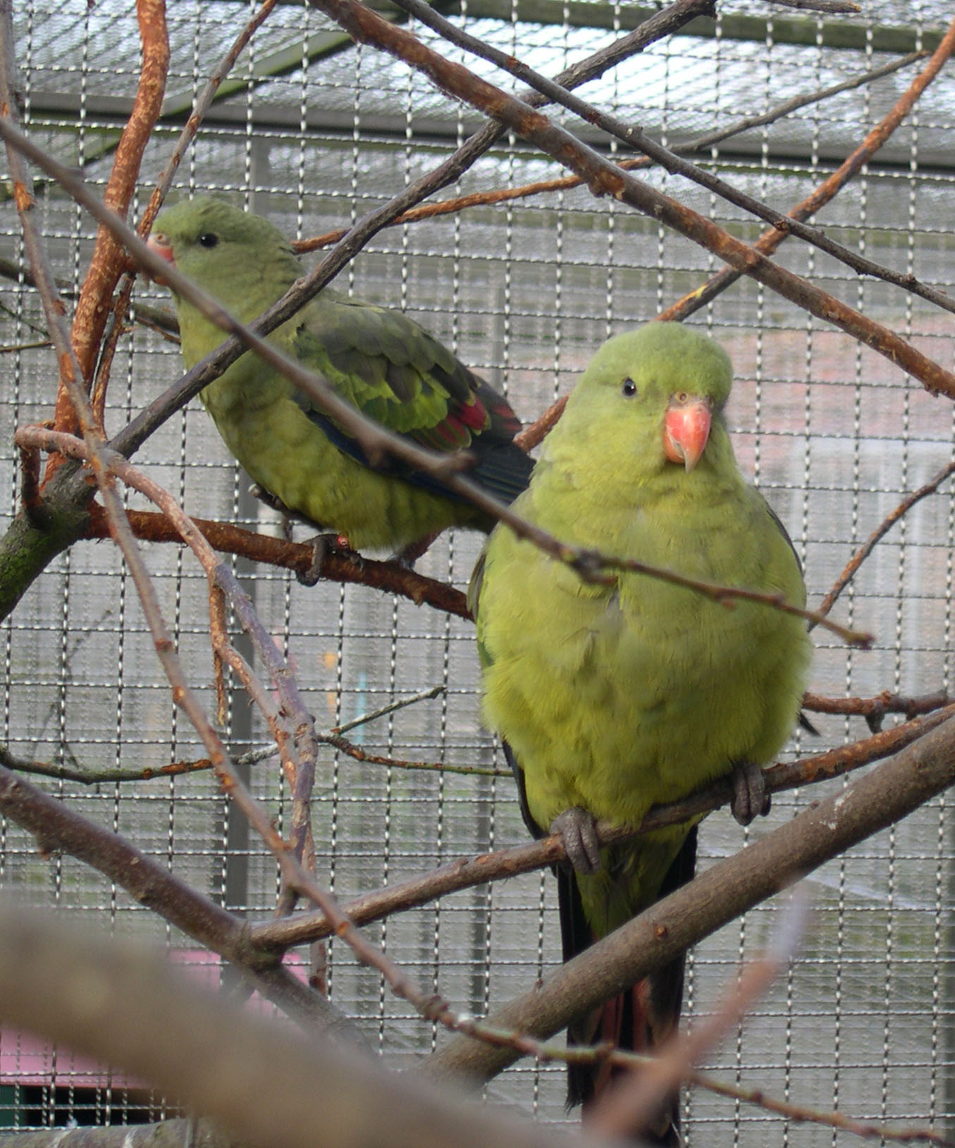 A pair of Regent Parrots (Polytelis anthopeplus) in Avifauna, The Netherlands